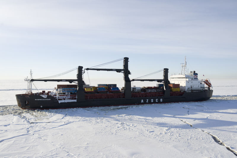 Valeri Vasiliev entering the port of Sabetta in the Gulf of Ob, Russia.